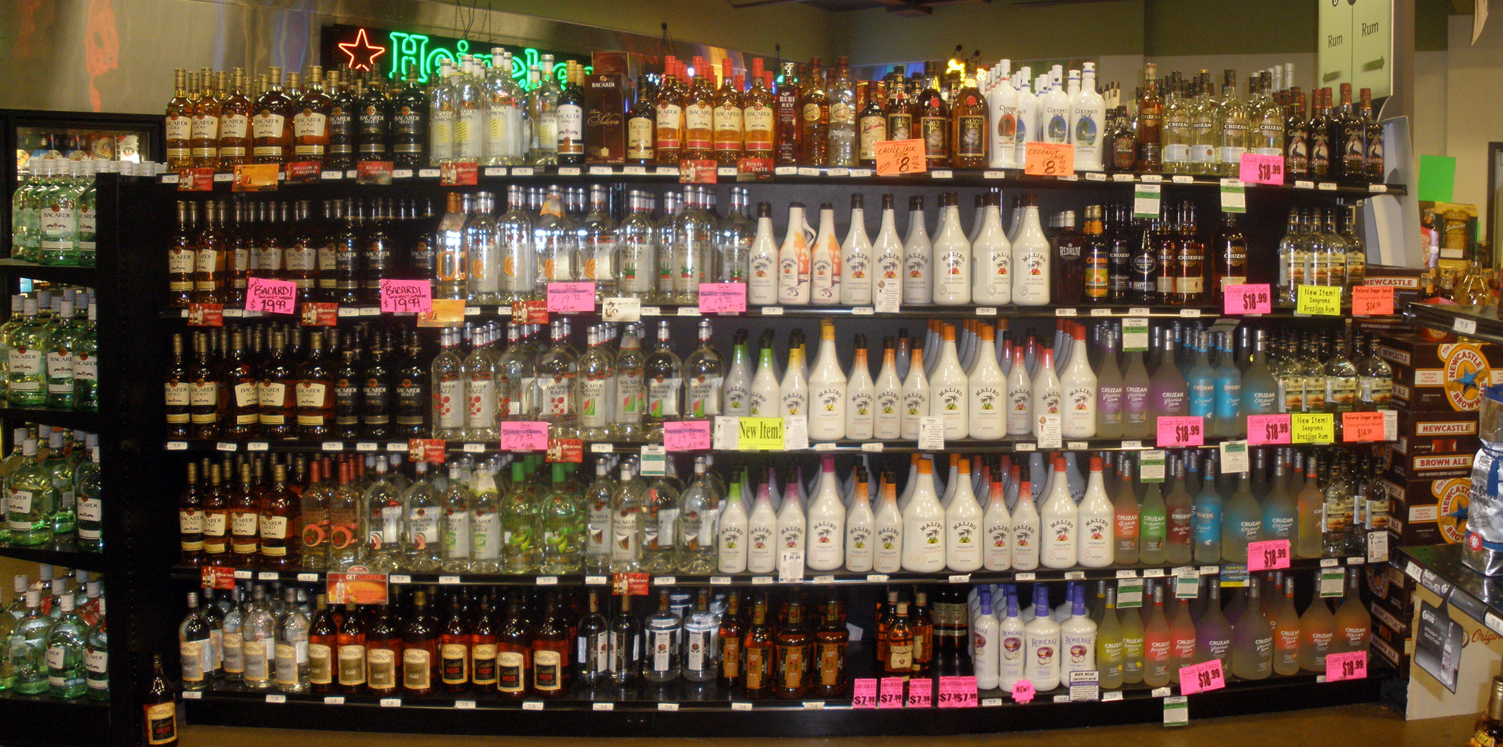 Rum display shelves in an American liquor store. Panorama from two original photographs.